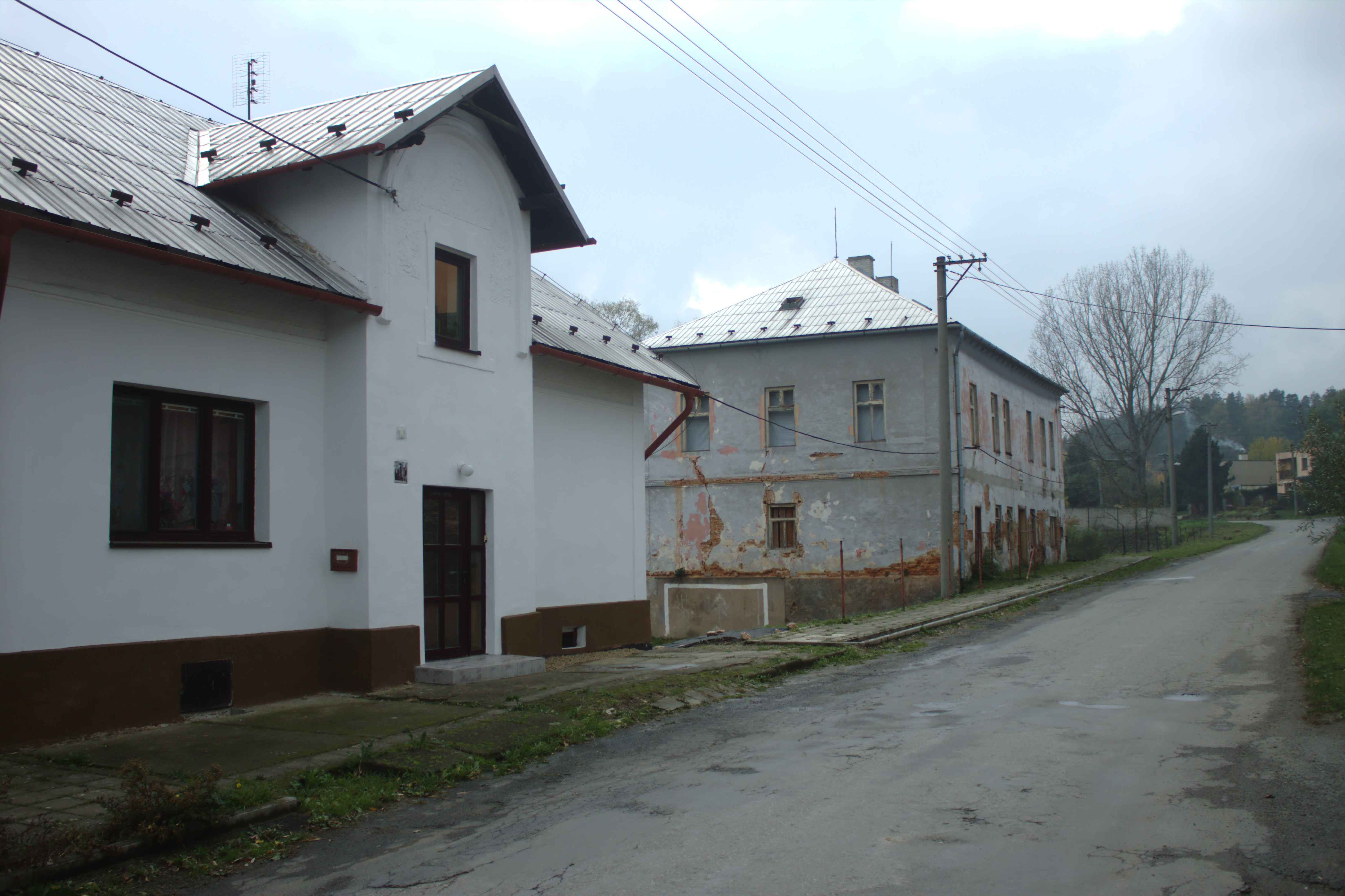 A building and former preschool in Dolní Povelice, Moravia-Silesia Region, CZ